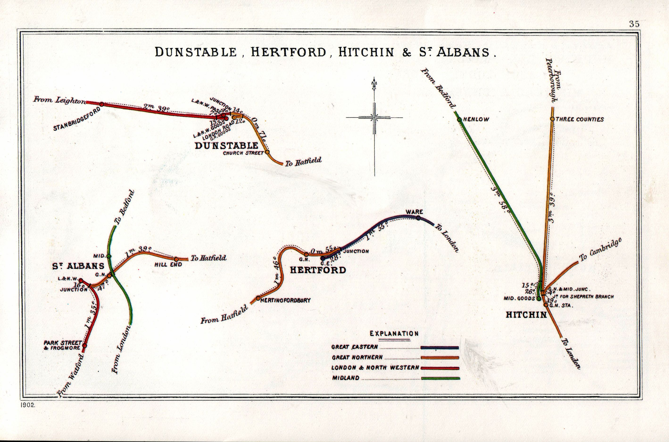 Pre Grouping railway junction around Dunstable, Hertford, Hitchin & St Albans